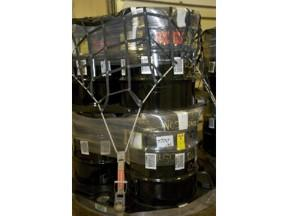 Labeled 100-gallon drums showing the approximate container weight are staged at the Waste Isolation Pilot Plant in Carlsbad, NM for downloading and emplacement in the underground repository.